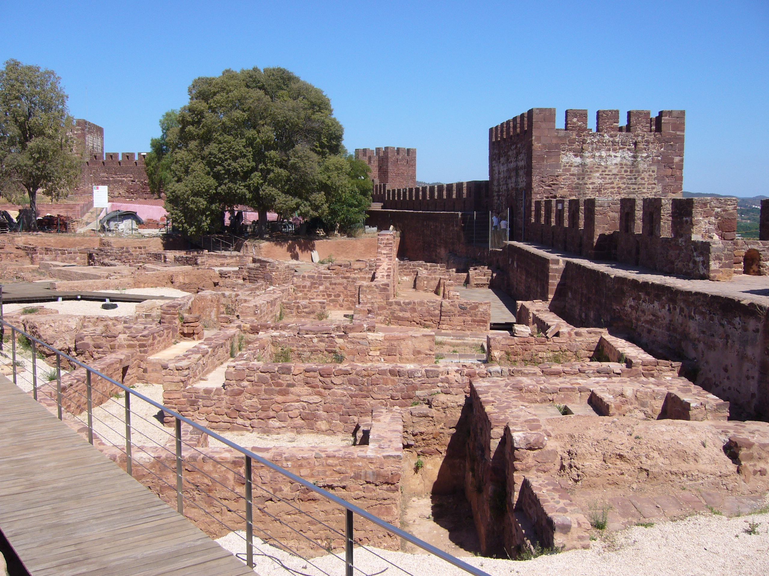 Silves Castle